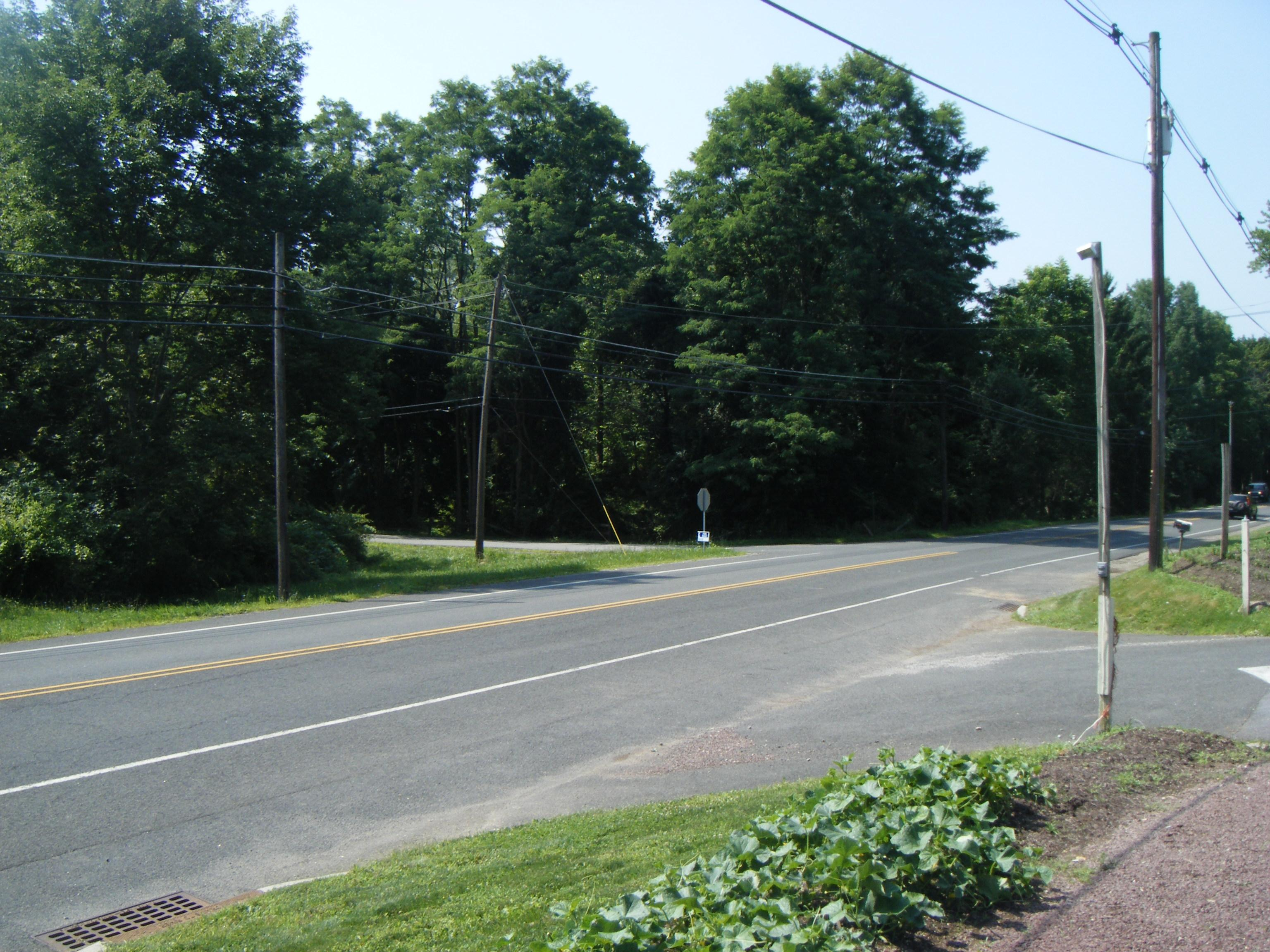 Southbound County Route 513 at the intersection with Butternut Road in Lebanon Township, New Jersey